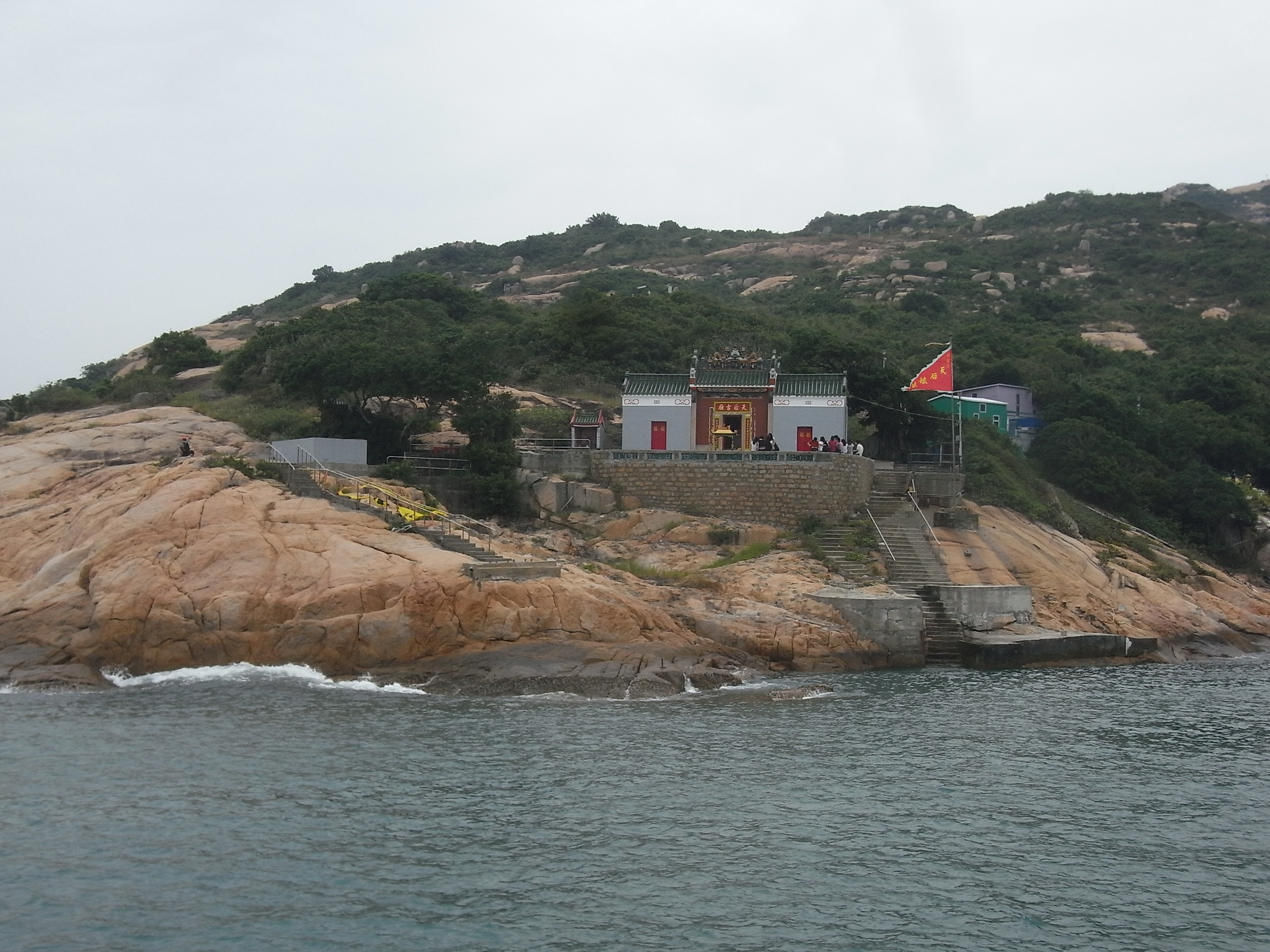 香港離島|蒲台島, Po Toi Island, Hong Kong